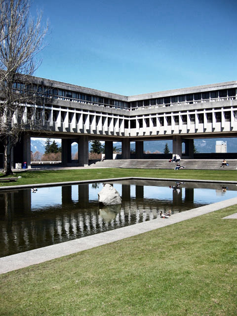 Pond in the middle of the Academic Quadrangle at Simon Fraser University.